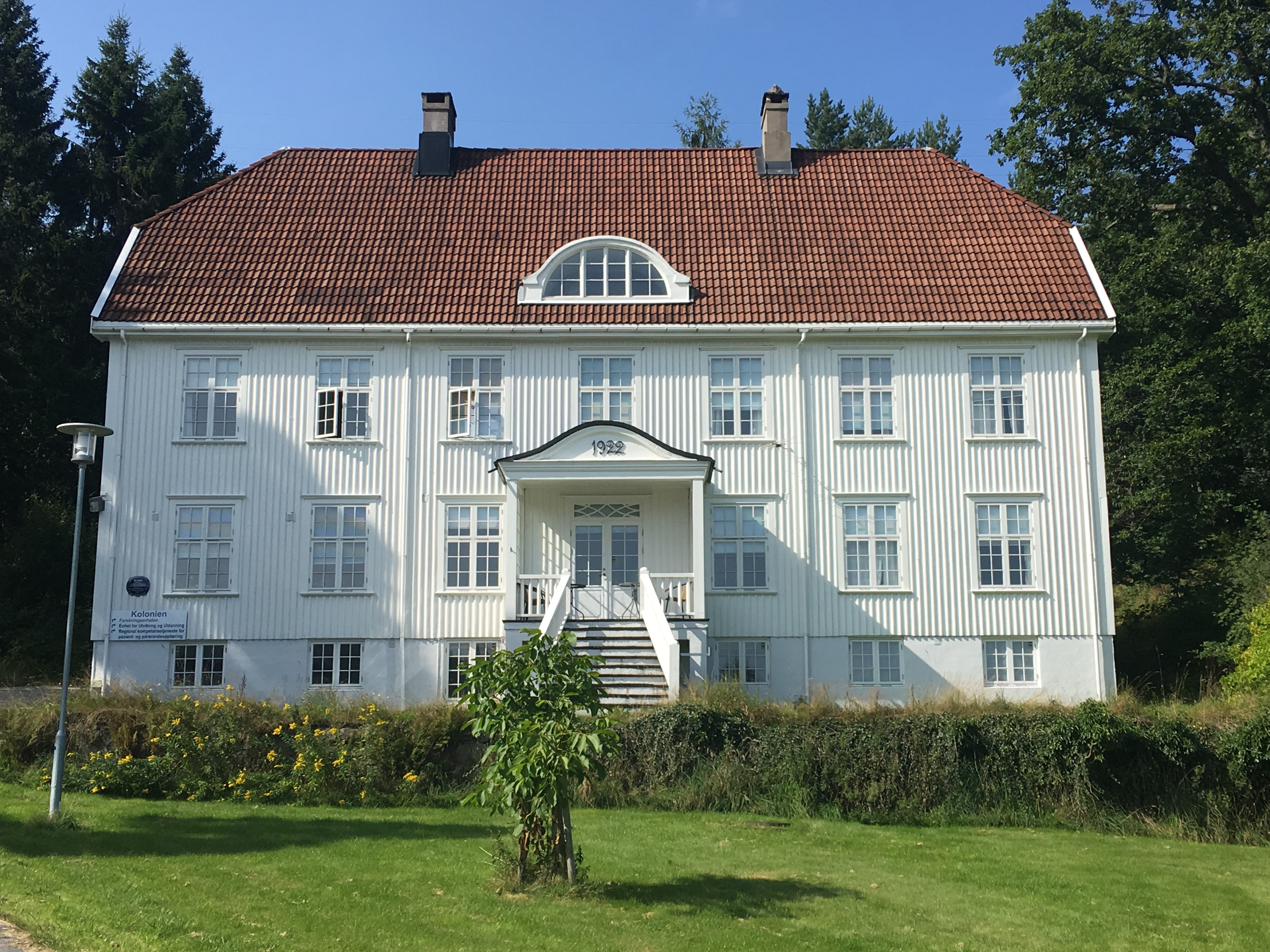 Eg Sykehus, a psychiatry institution in Kristianssnad, Norway, built in 1881. The hospital was the second of its kind in Norway (next after Gaustad Sykehus), and is a part of "Sørlandet Sykehus". Kolonien (Building 17) from 1922 was formerly a semi self-sustained part of the psychiatric hospital, in modern times this is a policlinical and educational annex.